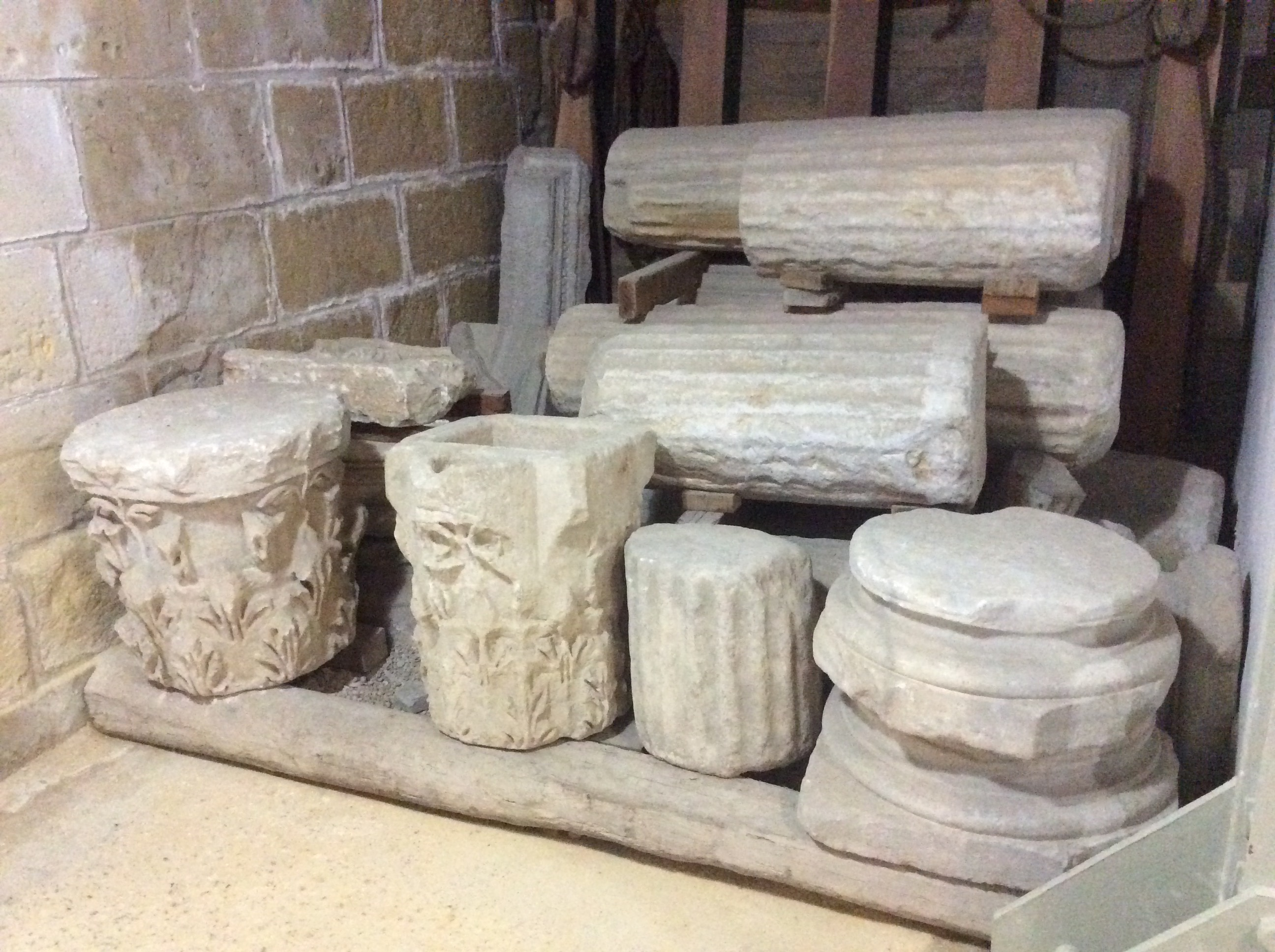 Roman columns and architecture at the Malta Maritime Museum - found at sea or around the harbour land